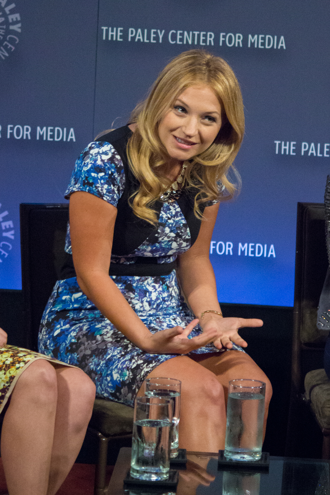 Actress Vanessa Ray at the New York PaleyFest 2014 for the TV show "Blue Bloods"